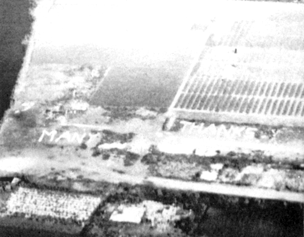 Operations Manna and Chowhound - "Many Thanks" spelt-out in tulips, Holland, May 1945